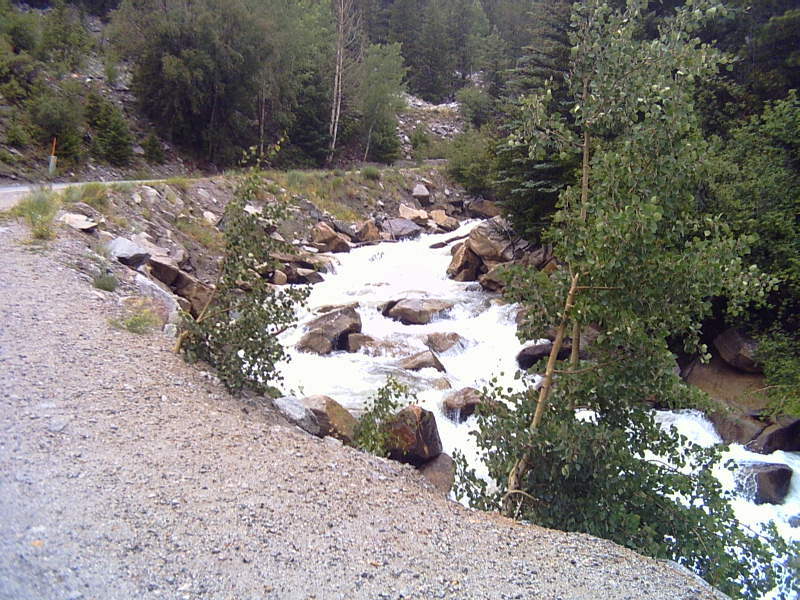 Chalk Creek, Nathrop, Chaffee County, Colorado, west of US 285, county road to St. Elmo